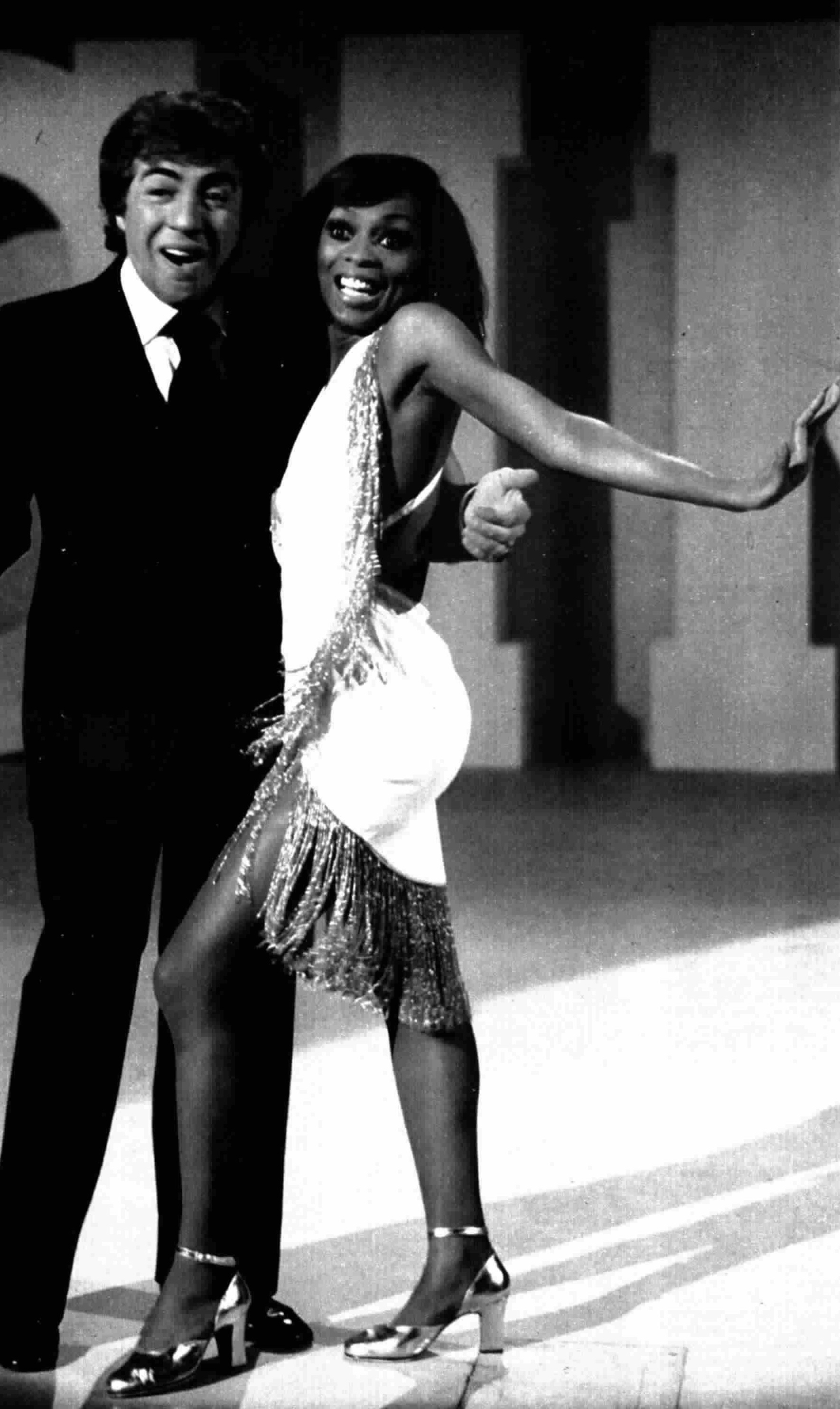 actors Gino Bramieri and Lola Falana in Italian TV show Hai visto mai?